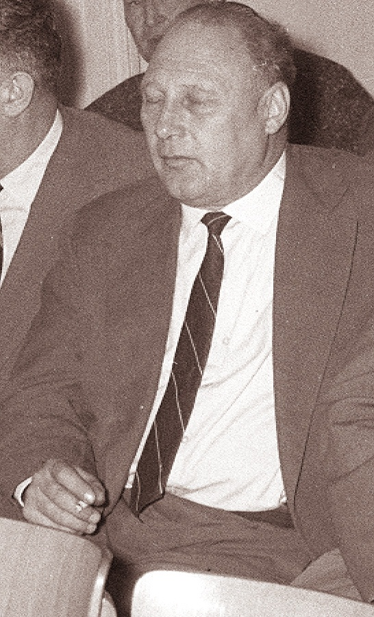 Milan Apih (1906–1992), Slovenian political activist and a writer.